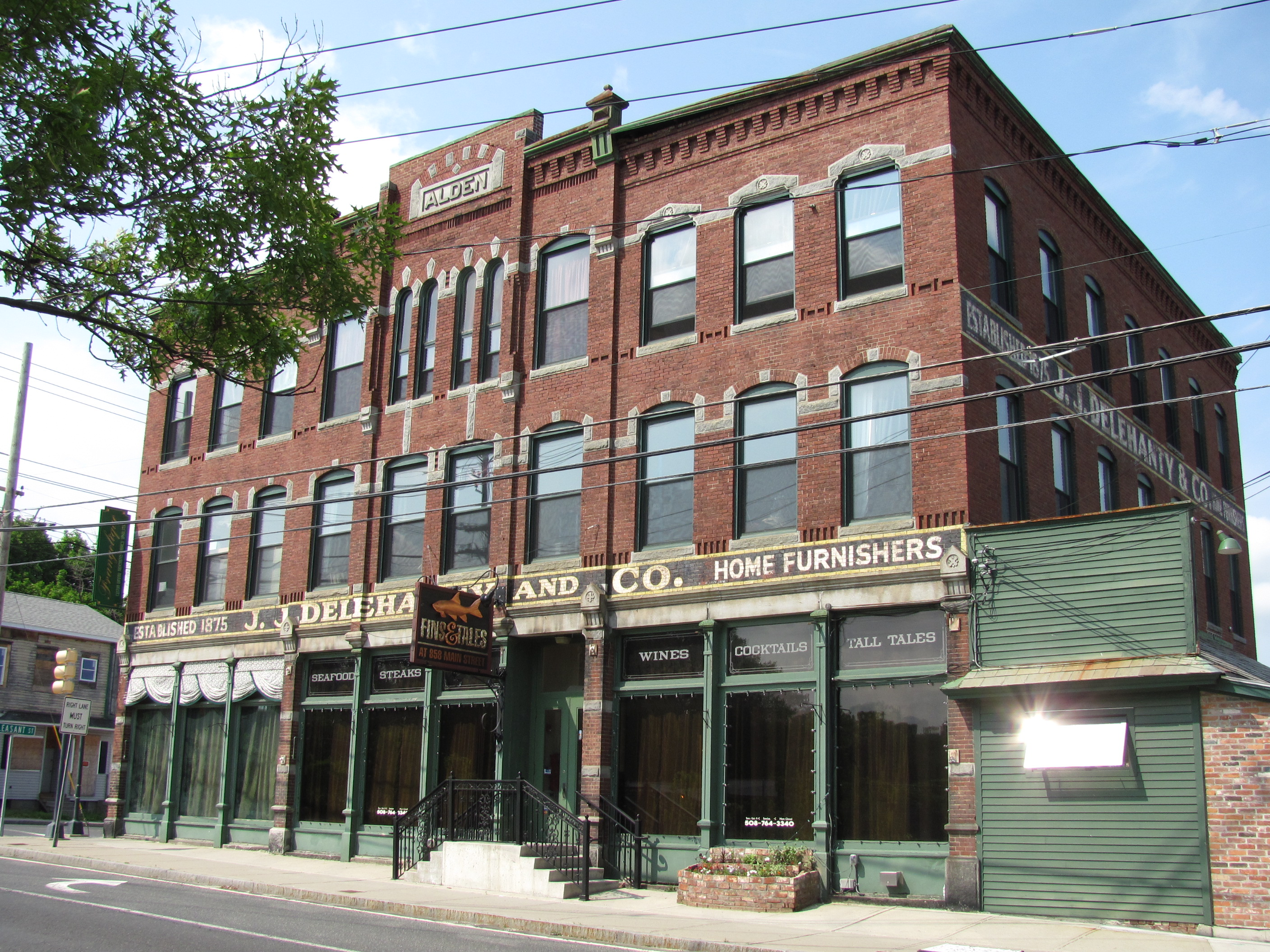 Alden-Delahanty Block, Southbridge Massachusetts